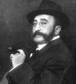 Spanish Writer José López Silva